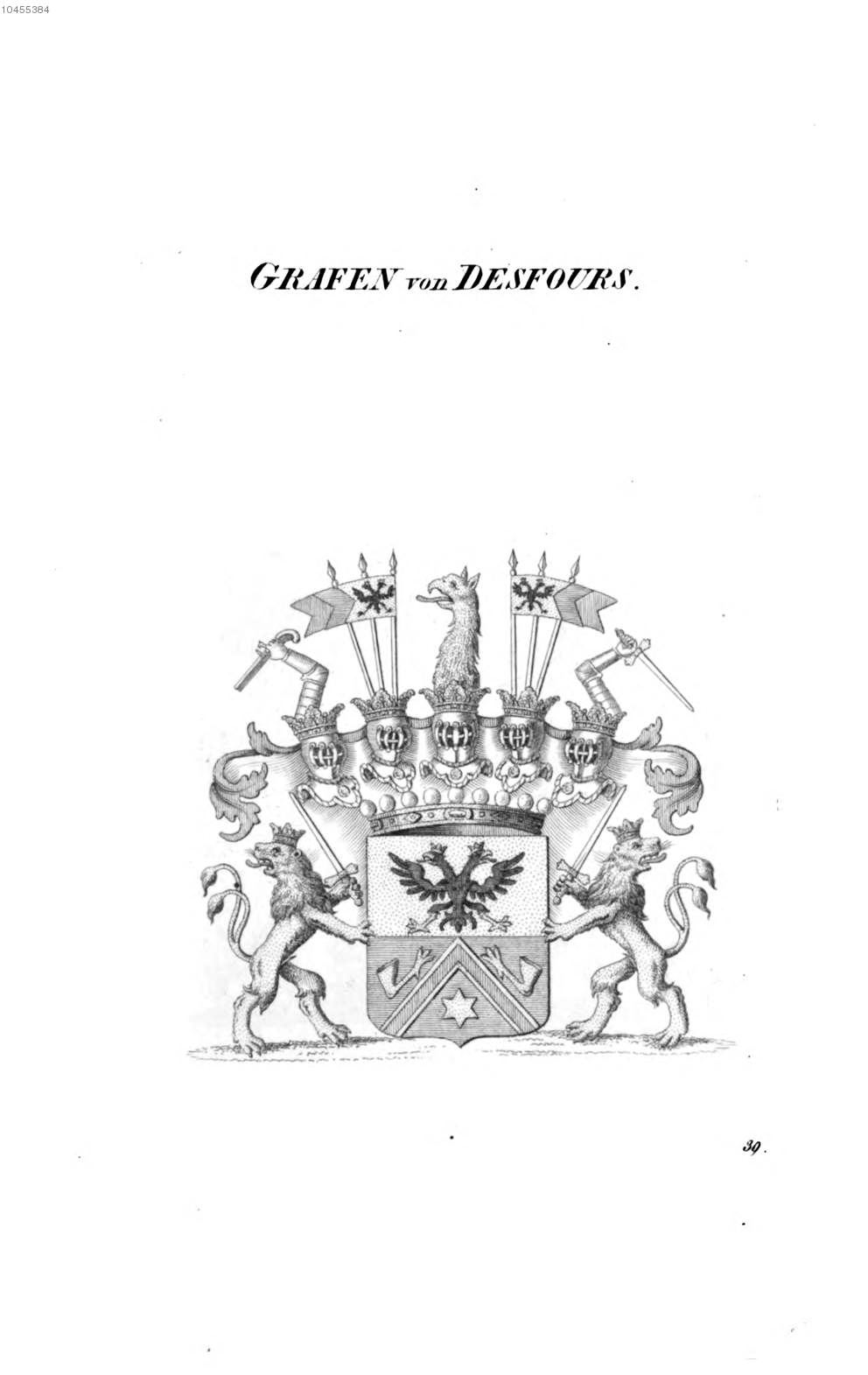 Wappen Desfours - Tyroff HA.jpg